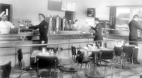 USAF Photo of Orly Air Base AFEX Snack Bar.